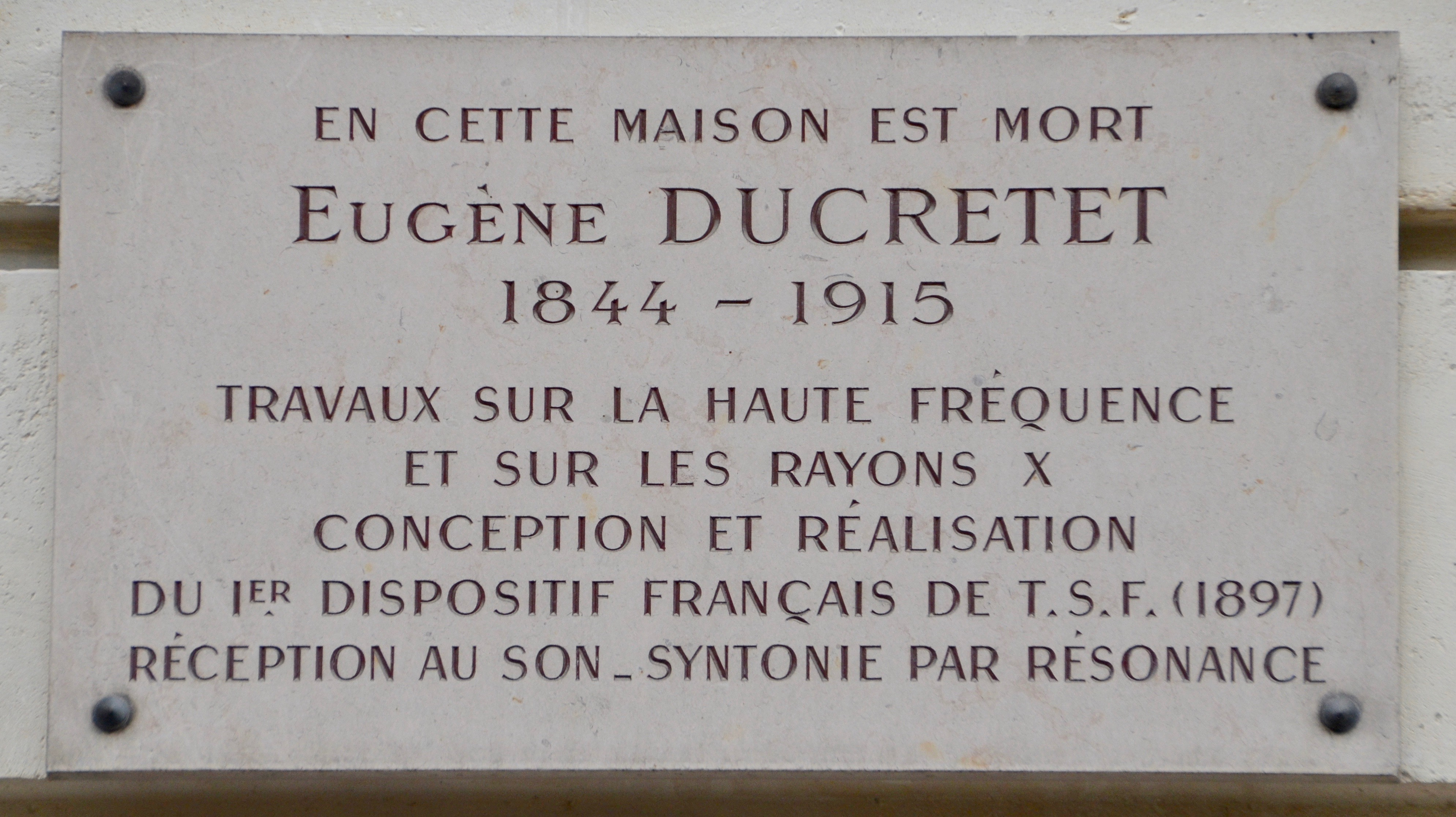 Read about him here